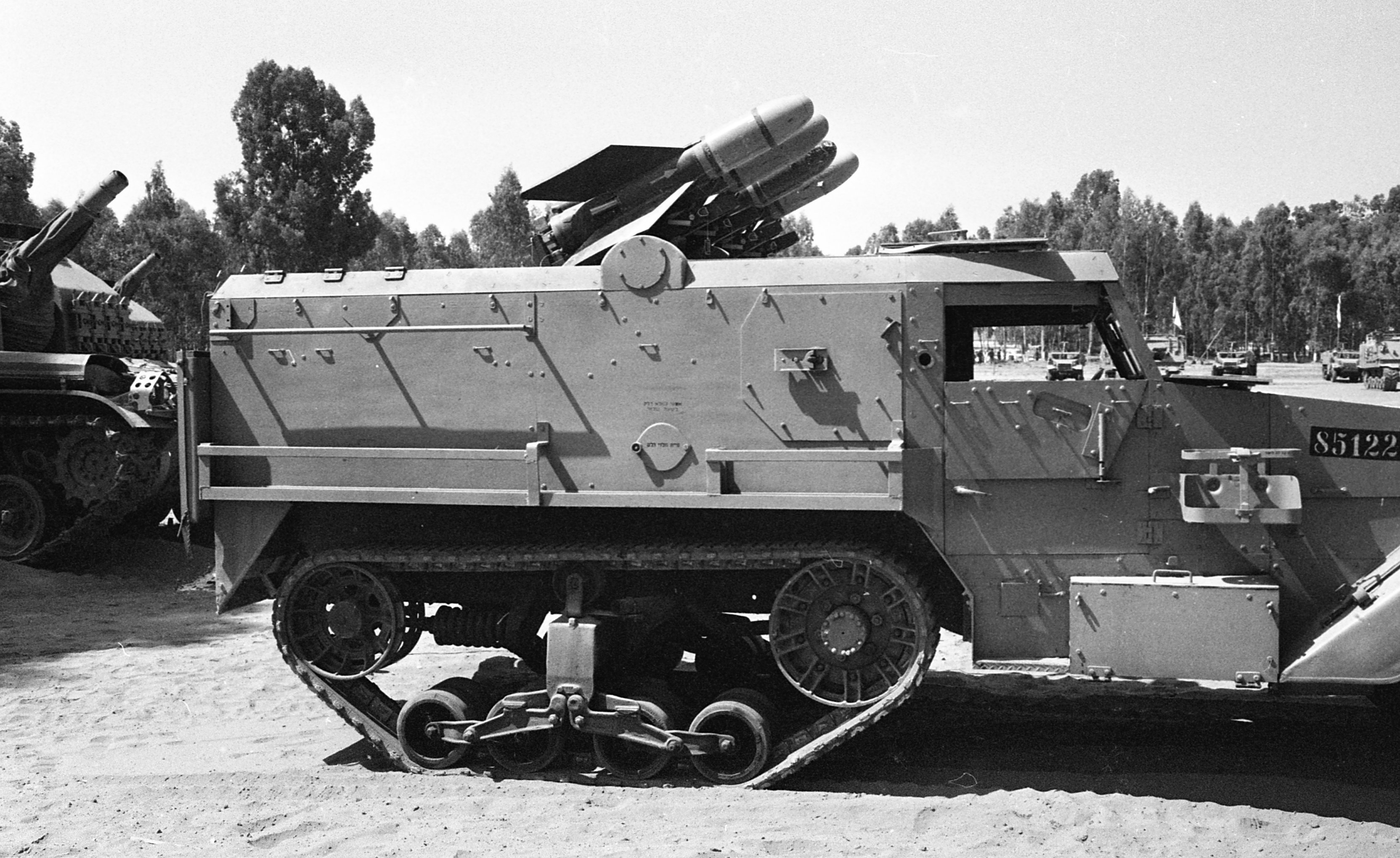 Ending ceremony of officers course of the IDF Artillery Corps took place at one of the Bahad training camps